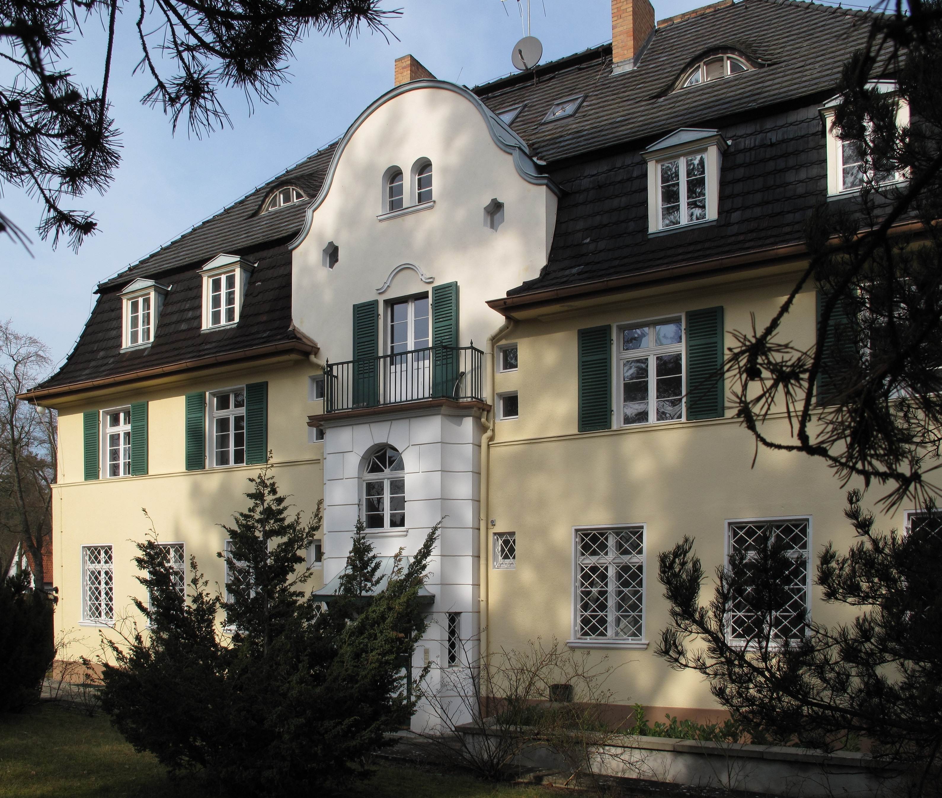 Listed Demeterhaus (garden side) in Bad Saarow, Lindenstraße 8, District Oder-Spree, Brandenburg, Germany. The house was built 1924 according to plans by the architect Max Werner. It is named after the Demeter associaton, which used the house in the 1930s. Today it is used mainly as conference center.